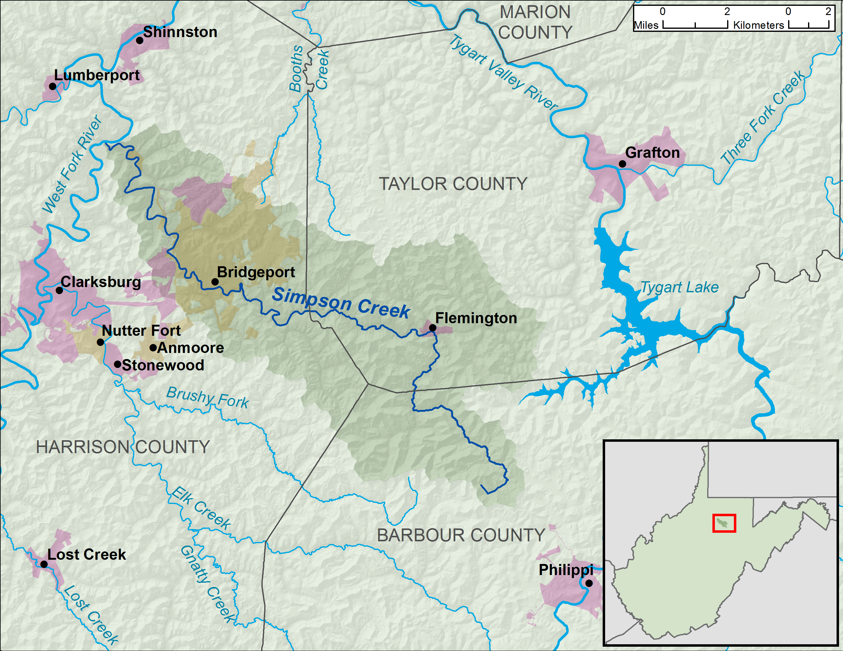 A map of Simpson Creek and its watershed (USGS HUC-12 codes 050200020401 and 050200020402), in Harrison, Taylor, and Barbour counties in West Virginia.